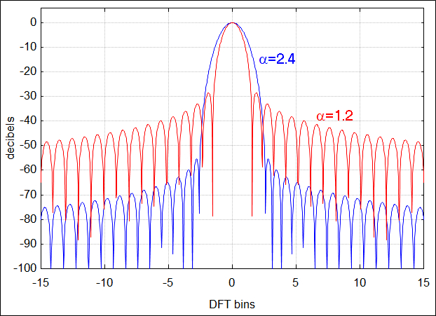 Spectra of two Kaiser windows